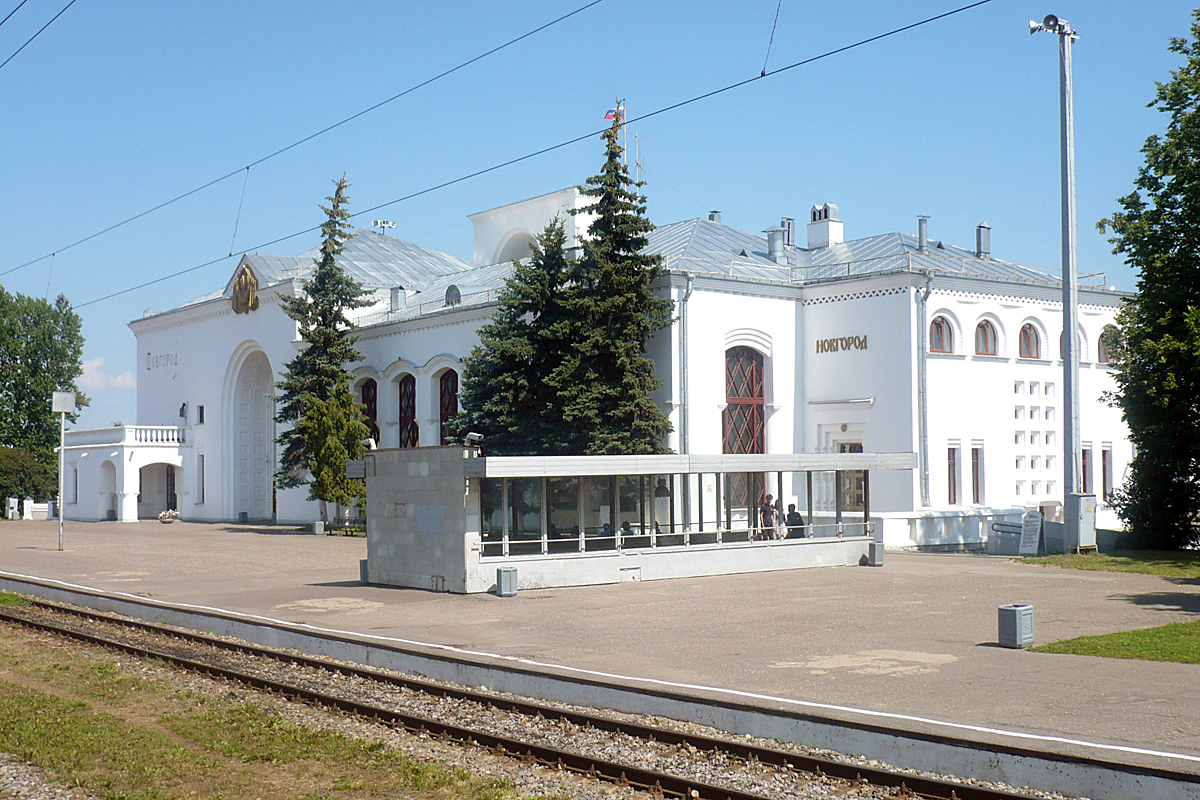 Novgorod Railway Station, seen from the platform.